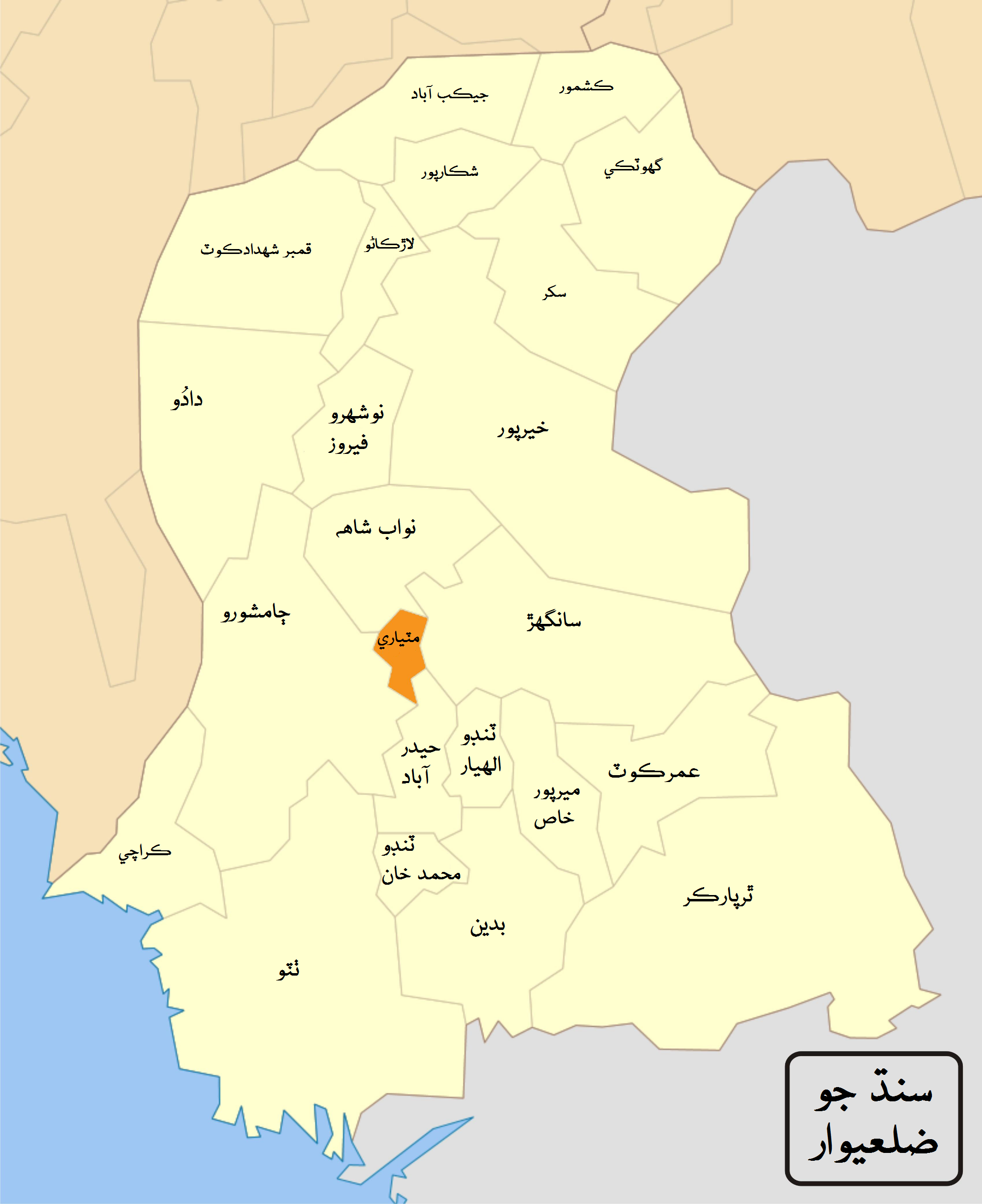 This file shows District Matiari highlighted on the Map of Sindh, showing all the disctricts.